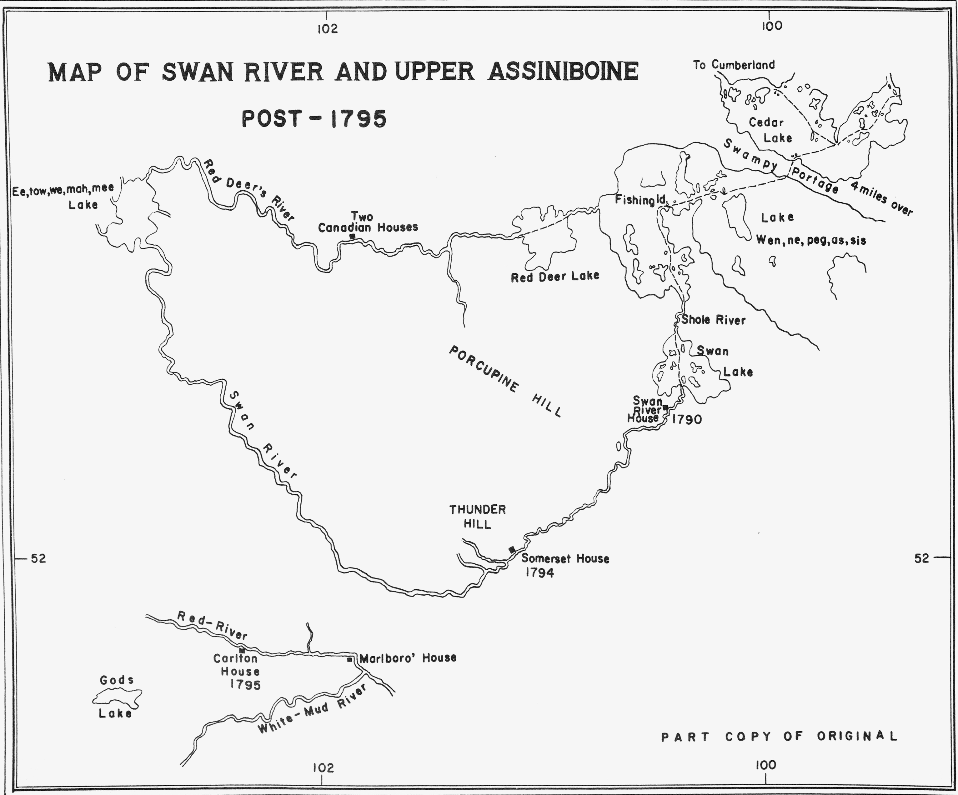 The following is the author's description of the photograph quoted directly from the photograph's Flickr page."Peter Fidler was engaged in mapping the country being occupied by Hudson%u2019s Bay Company trading servants, particularly from York Fort. One such map of a smaller segment of Manitoba, with adjoining parts of Saskatchewan, is this map prepared soon after 1795. It shows the most detailed configuration available of Northern Lake Winnipegosis and southern Cedar Lakes with the important isthmus separating the two, and parts of three river systems, Swan, Red Deer and Assiniboine. This region was the scene of the unseemly competition for trade by Company traders from York Fort and from Albany Fort who met in this area in 1795 and established competing posts within a few miles of each other. This was later discontinued as a result of reorganization. Fidler was a member of the founding party from York. This map has several errors, one being an improper indication that the Swan and Red Deer rivers issue from the same source. Moreover the course of the upper Swan river is swung too far to the west. The Red river noted on the map is actually the Assiniboine, and the White-Mud river is the present Whitesand river.(Warkentin and Ruggles. Historical Atlas of Manitoba. map 40, p. 102)-------------------Map of Swan River and Upper Assiniboine River. Post 1795. Map prepared in black ink by R.I. Ruggles from original manuscript (map G.1/19) in the Archives, Hudson%u2019s Bay Company, London. Manuscript map has no title. Manuscript map in black ink on medium weight drawing paper, with end rollers. Original map likely drawn by Peter Fidler.Manitoba historical atlas : a selection of facsimile maps, plans, and sketches from 1612 to 1969 / edited with introductions and annotations by John Warkentin and Richard I. Ruggles. Published: Winnipeg : Historical and Scientific Society of Manitoba , 1970. (map 40, p. 103) "